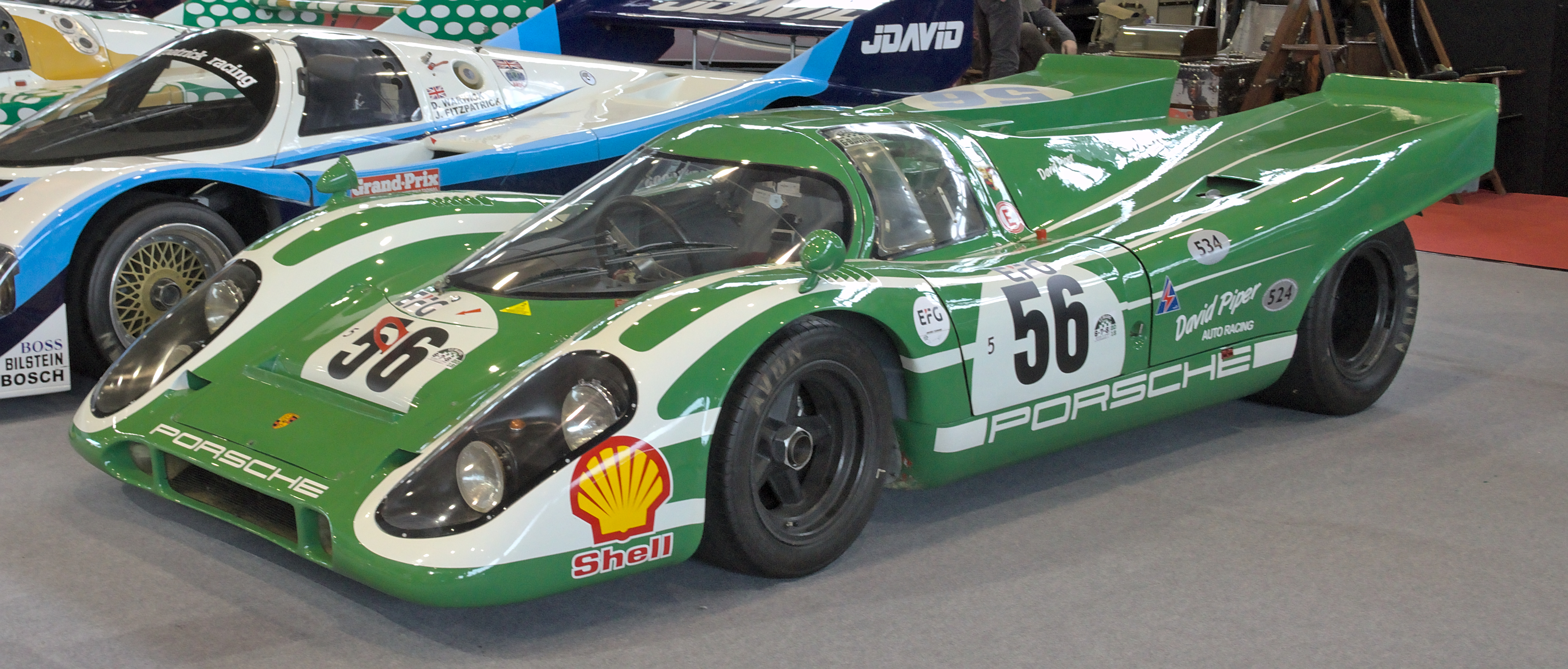 Porsche_917_5LT at Retro Classics 2020